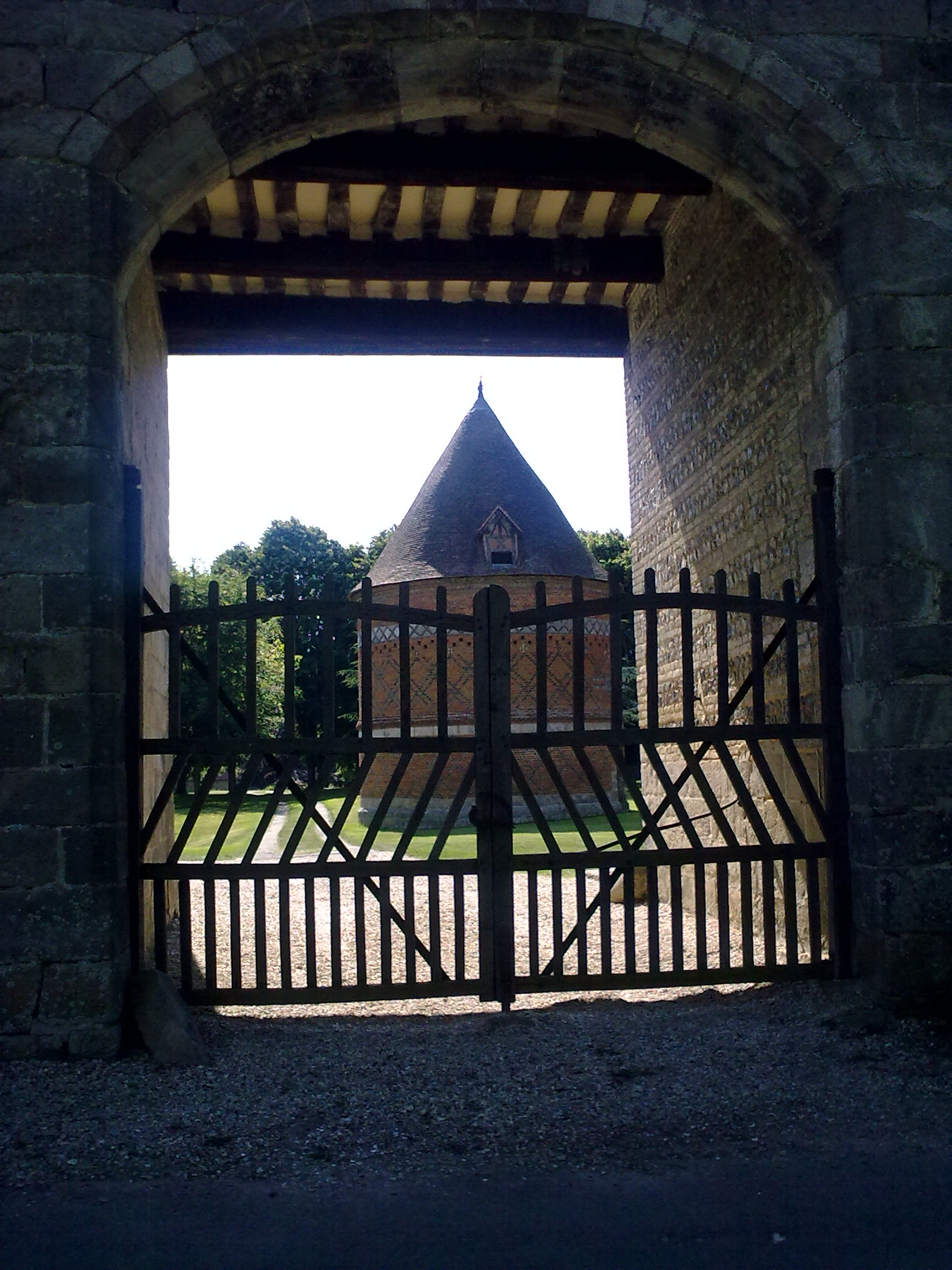 Dovecot at Offranville